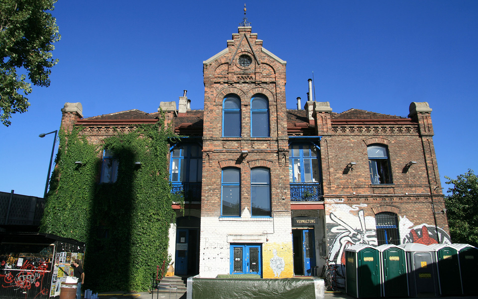 Administrative building of the cultural center Arena in Vienna, Austria.